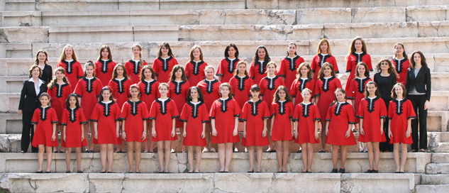 The Detska Kitka Choir in Plovdiv, 2008. Photo: Petar Peshev.